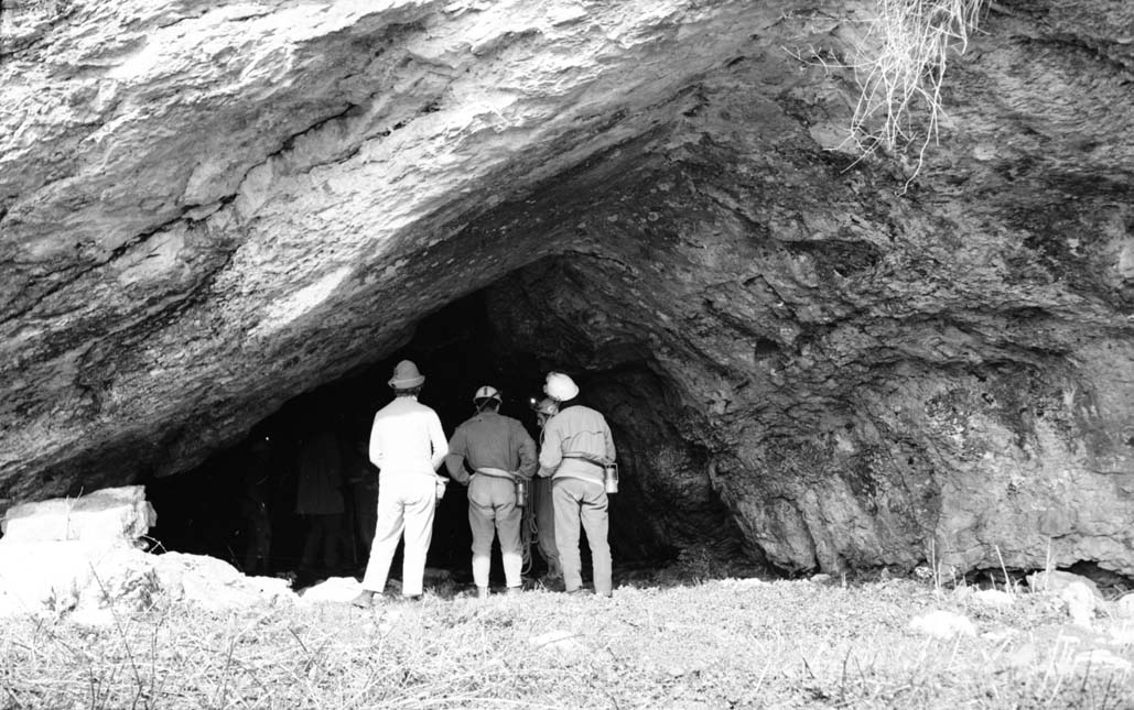 Entrance to Mairulegorreta cave